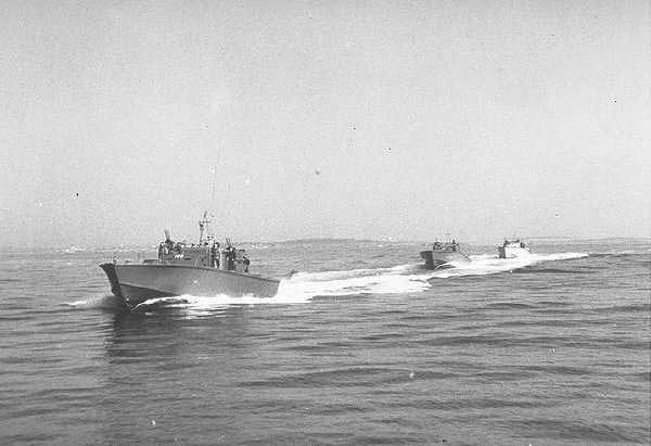 From [1] "PT Boat training operations in Narragansett Bay, which took place on a nearly round-the-clock basis from en:1941 to en:1945. Watching these fast boats racing up and down the bay soon became something of a spectator sport to the local population." Category:Boat images category:World War II ships category:Patrol vessels Category:Torpedo boats Category:Schnellboote